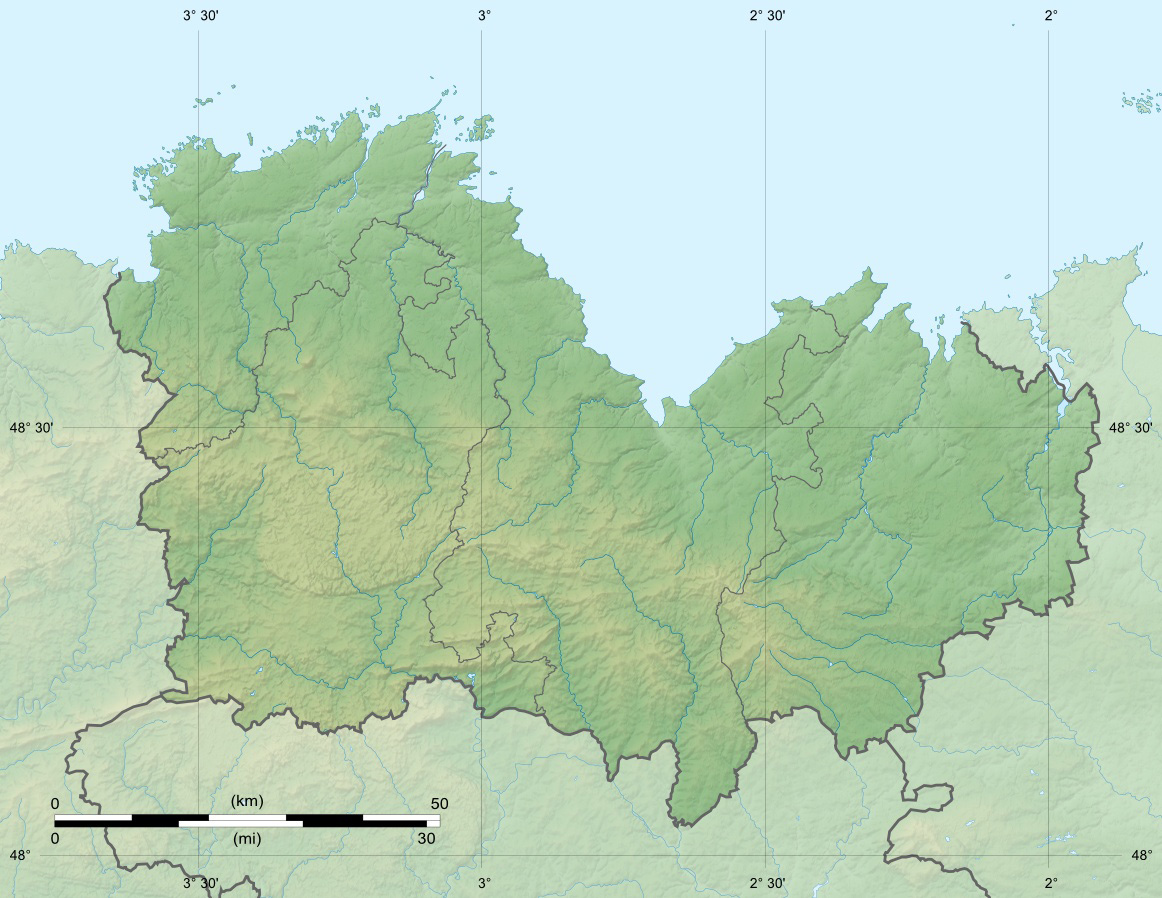 Blank physical map of the department of Côtes-d'Armor, France, for geo-location purpose, with distinct boundaries for departments and arrondissements.